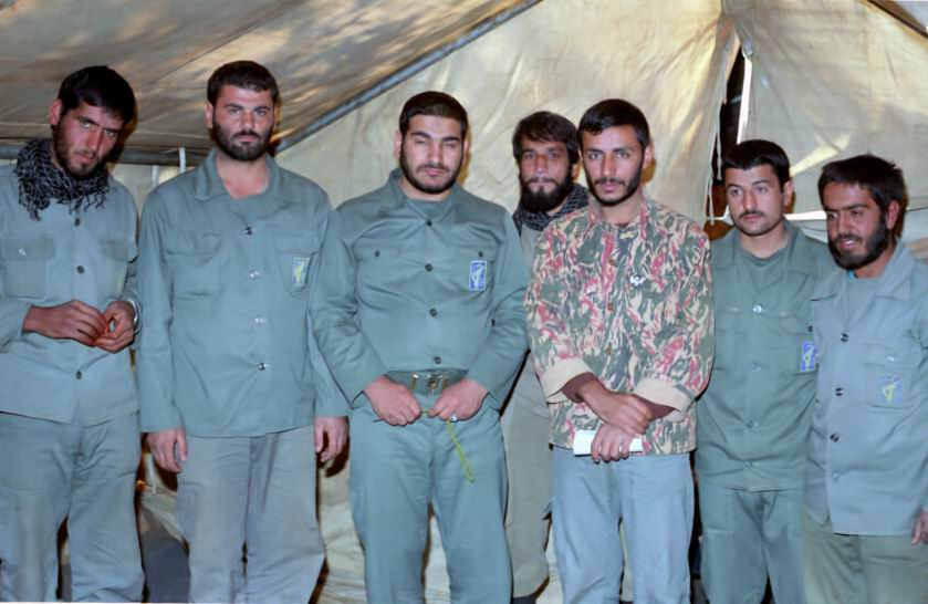 Mohammad Ebrahim Hemmat